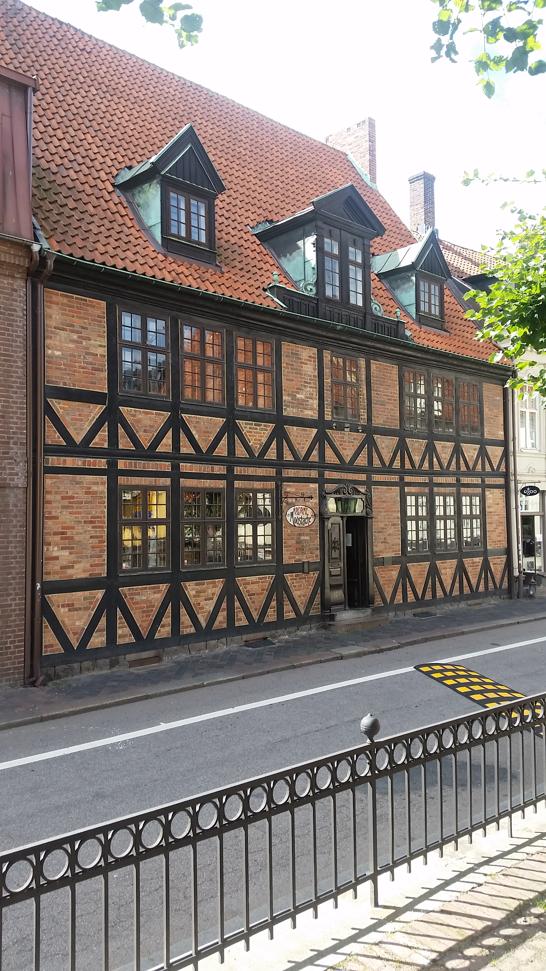 The house Gamlegård in Helsingborg.